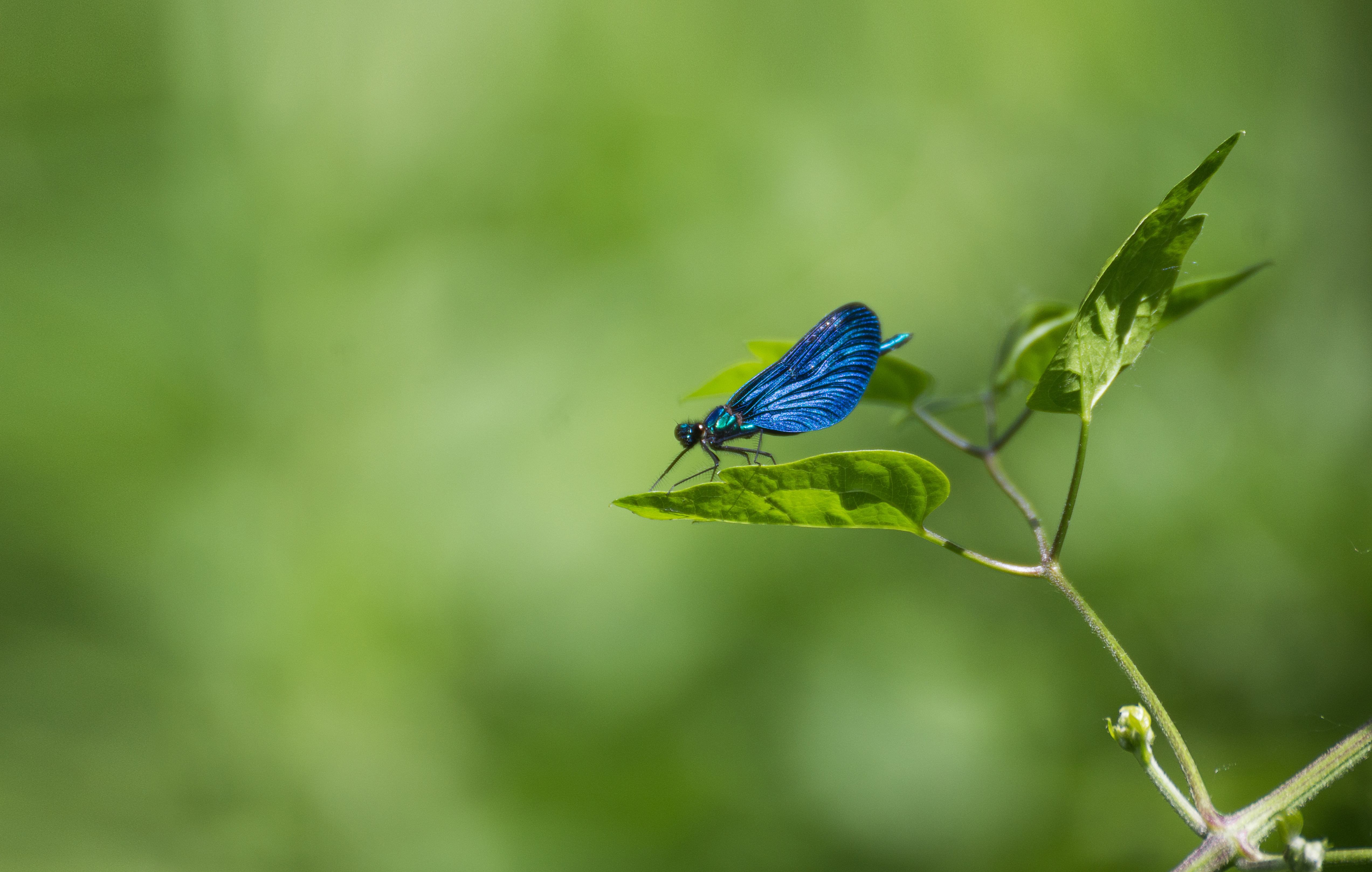 Calopteryx virgo in Rusenski Lom Nature Park